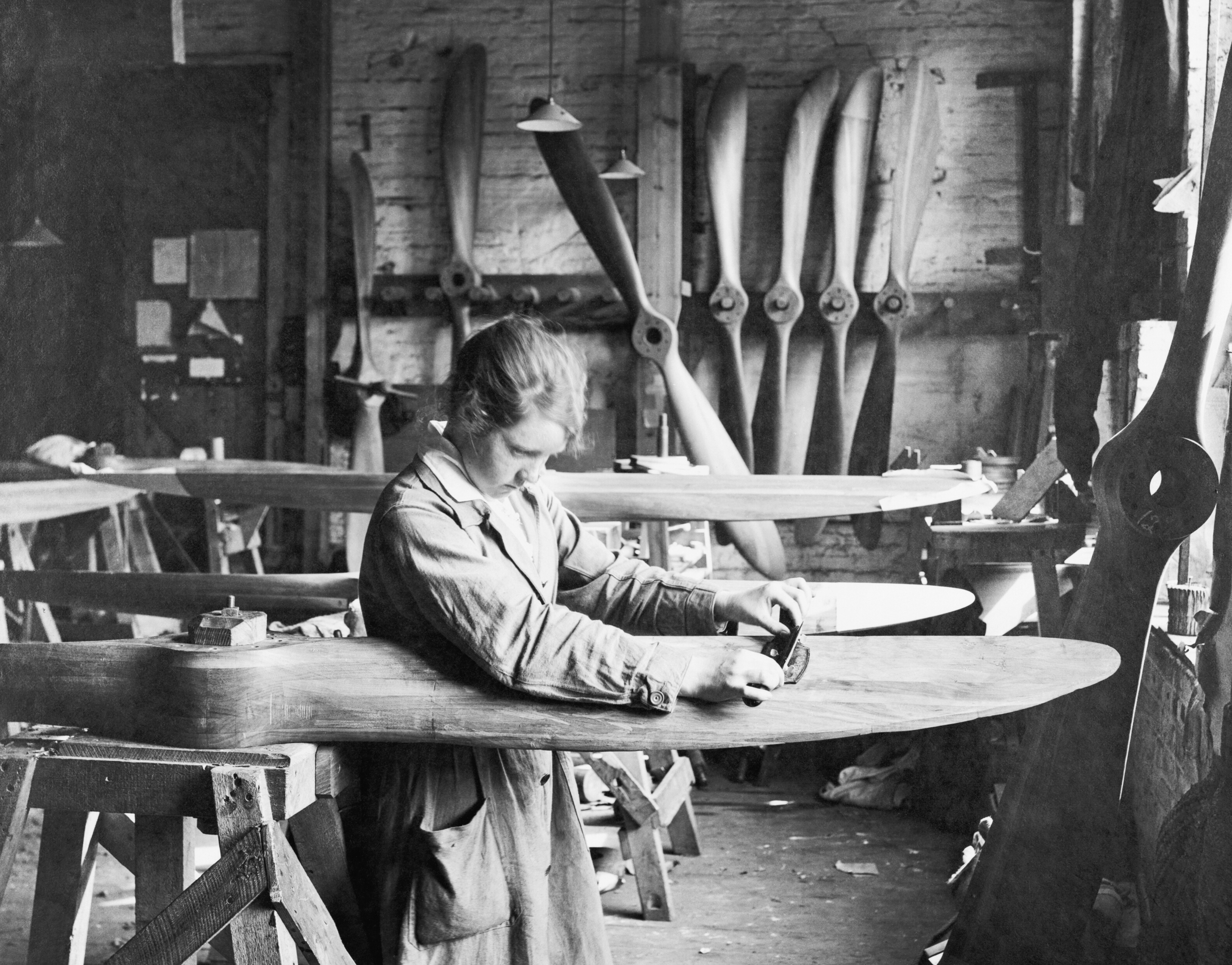 First World War Womens War work Collection Woman planing propeller